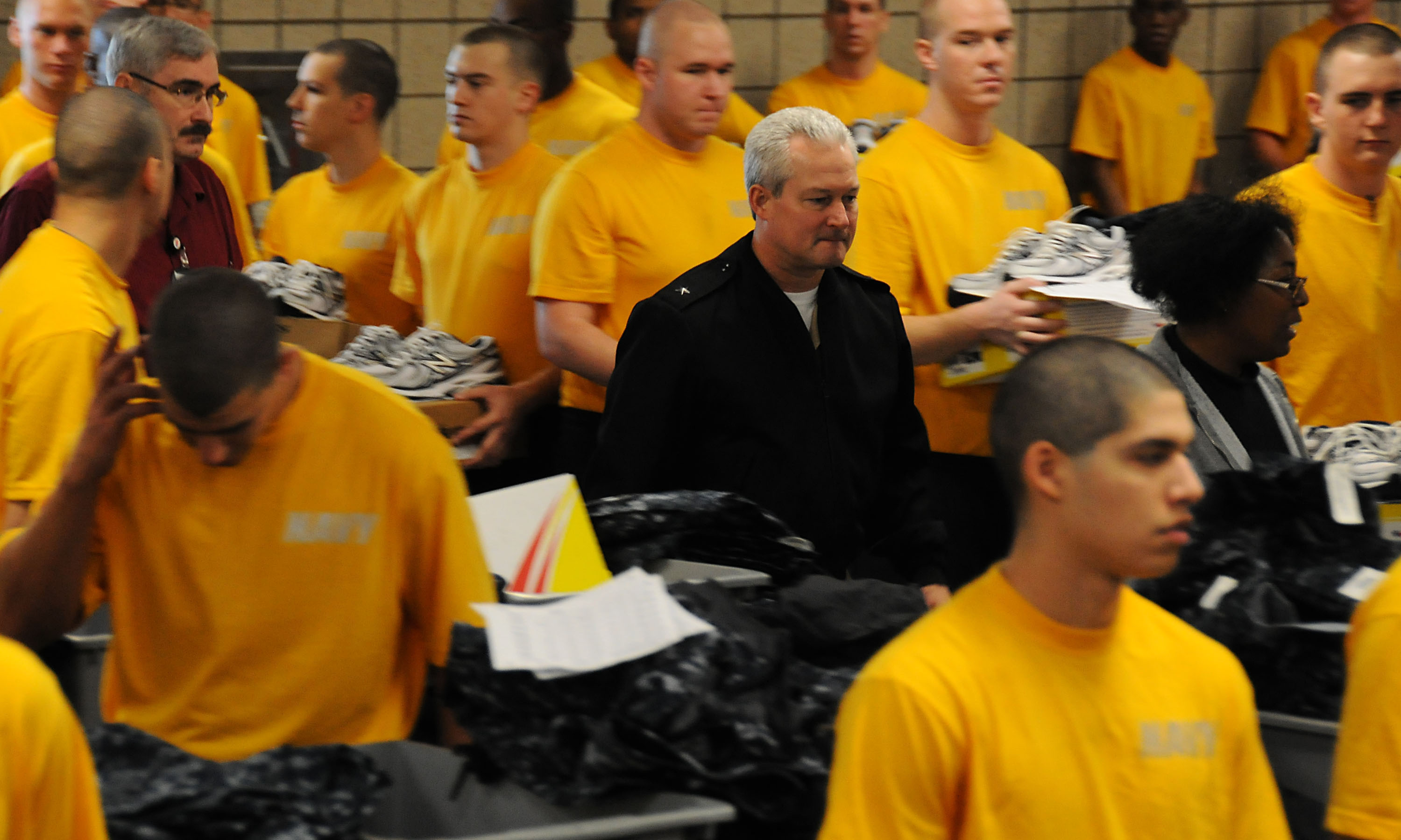 GREAT LAKES, Ill. (Dec. 1, 2011) Rear Adm. David F. Baucom, commander of Defense Logistics Agency Troop Support, tours the uniform issue department at the Recruit Training Command. Baucom observed the process as recruits were issued their uniforms. (U.S. Navy photo by Mass Communication Specialist 1st Class Andre N. McIntyre/Released)